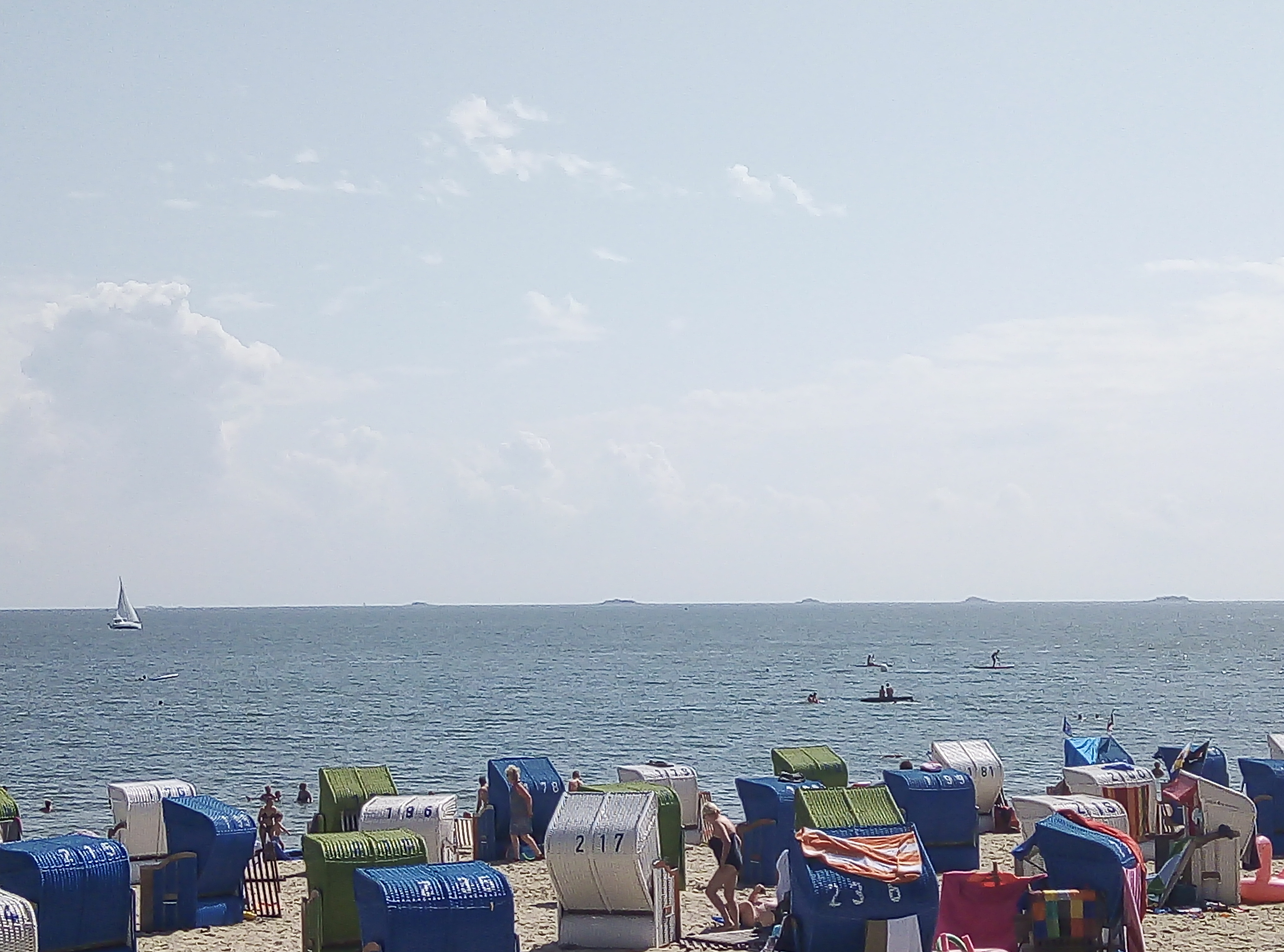 North Sea Beach, Wyk auf Föhr